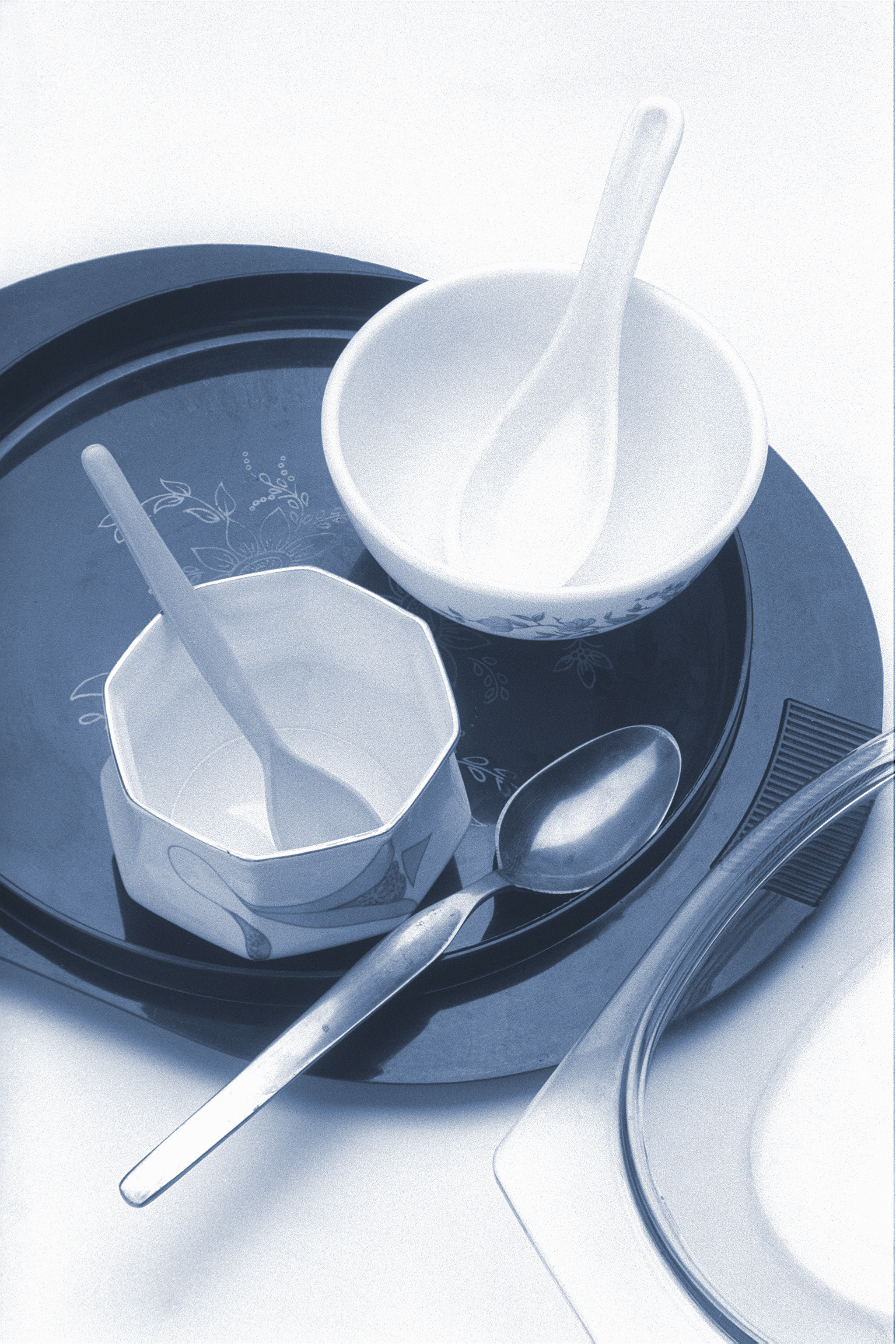 This photographed has been taken by conventional Black and White 100 ISO negative film with 135 Nikkor Lens in controlled studio lights. The negative was then scanned by Kodak 6 megapixel film scanner. Color has been added to enhance the mood and some dust spots were removed by Adobe Photoshop. All utensils were borrowed from my office canteen.